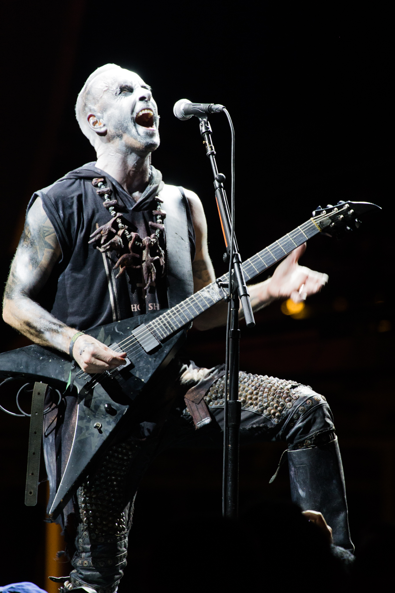 Behemoth performing at 70.000 tons of metal, january 2015